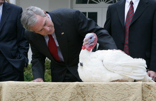 President George W. Bush offers an official pardon to May, the 2007 Thanksgiving Turkey, during festivities Tuesday, Nov. 20, 2007, in the Rose Garden of the White House.